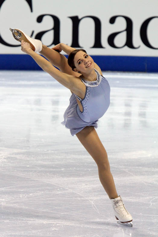 Jessica Dubé as singles at the 2011 Canadian Figure Skating Championships.